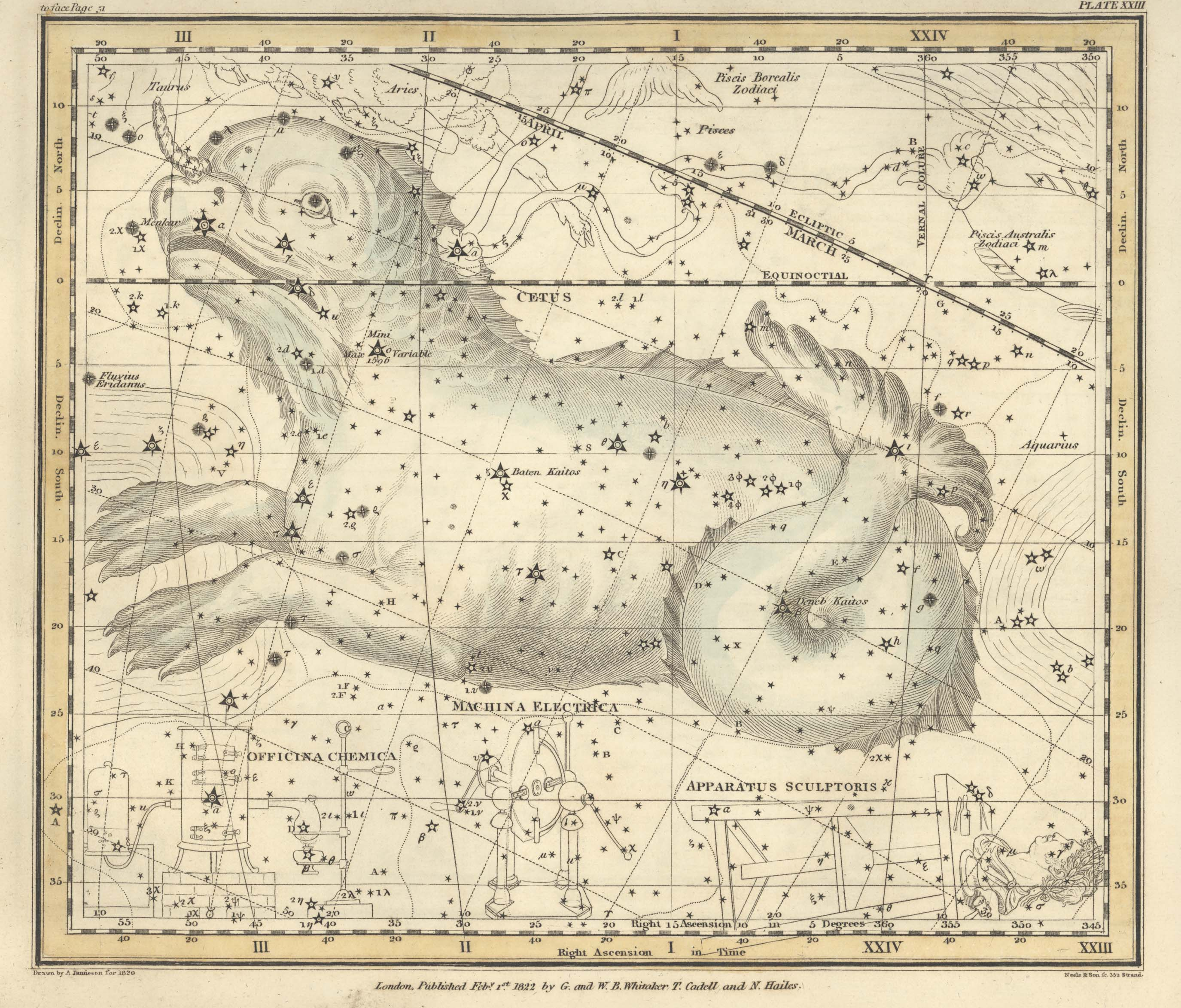 Plate 23 from A celestial atlas comprising a systematic display of the heavens in a series of thirty maps illustrated by scientific description of their contents and accompanied by catalogues of the stars and astronomical exercises